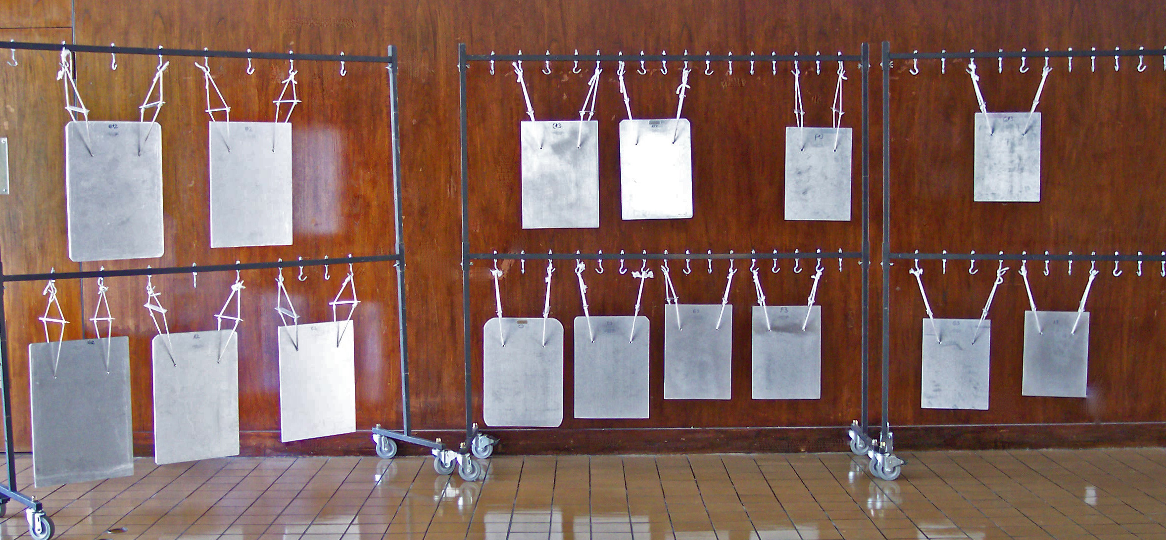 Bell Plates (from LA Percussion Rentals), chromatic range C2-E4